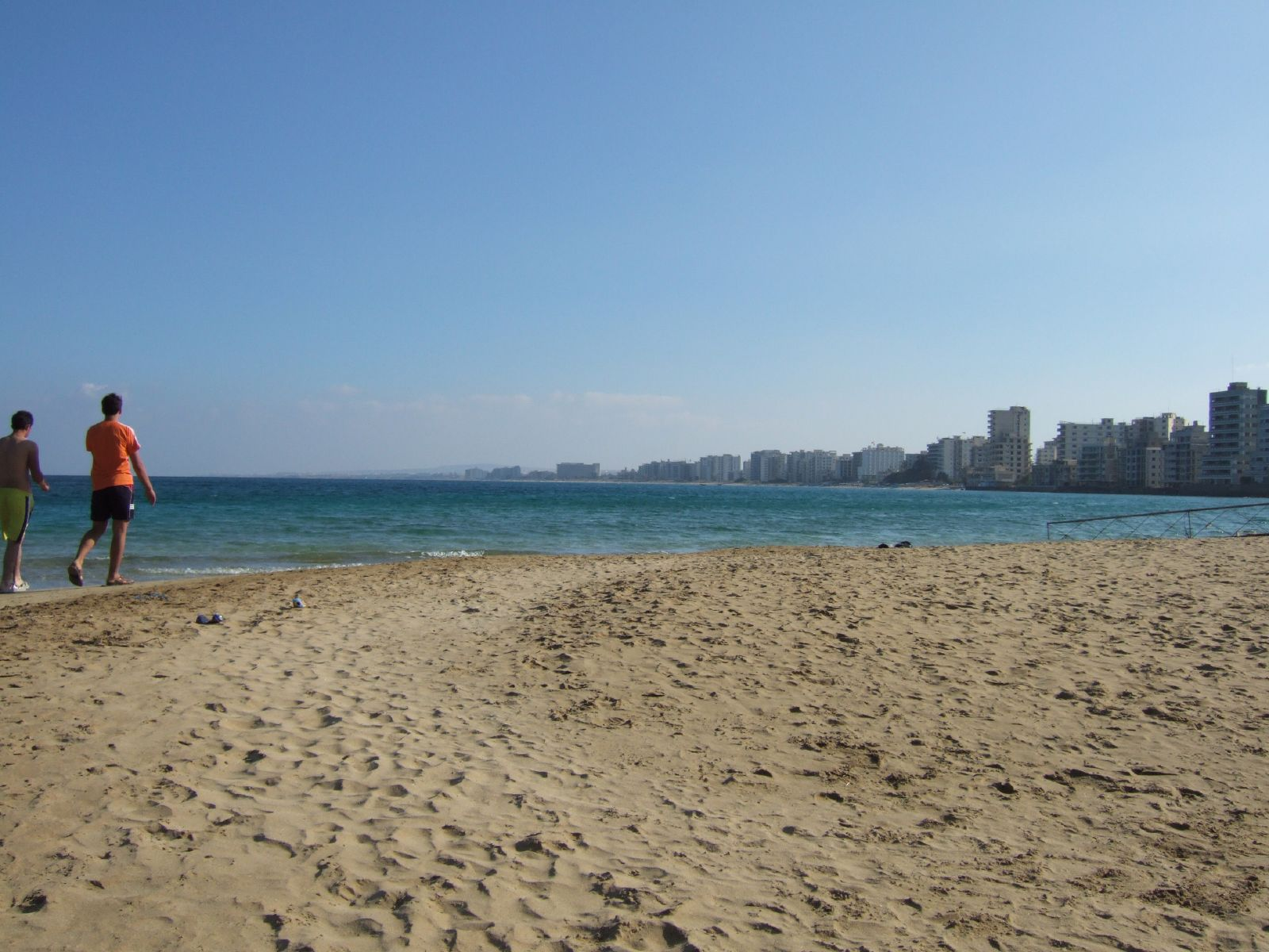 Famagusta, CiproThe silent city